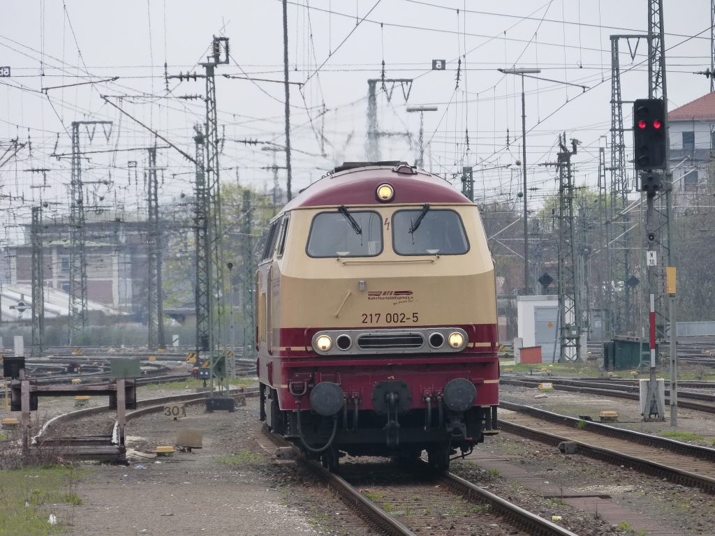 Locomotive D-BTEX 92 80 1 217 002-5 at Nuremberg Mainstation